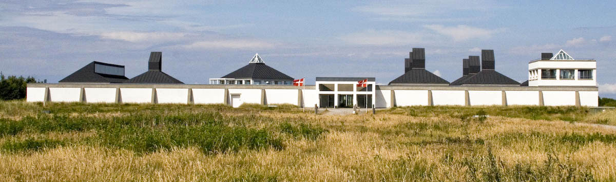 Skagen Odde Naturcenter, danish museum situated close to Skagen